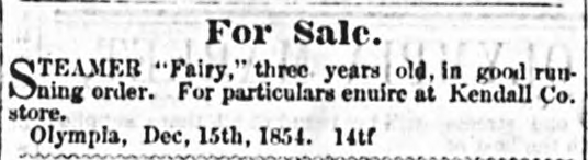 Advertisement for sale of steamboat Fairy, from the December 16, 1854 Pioneer and Democrat